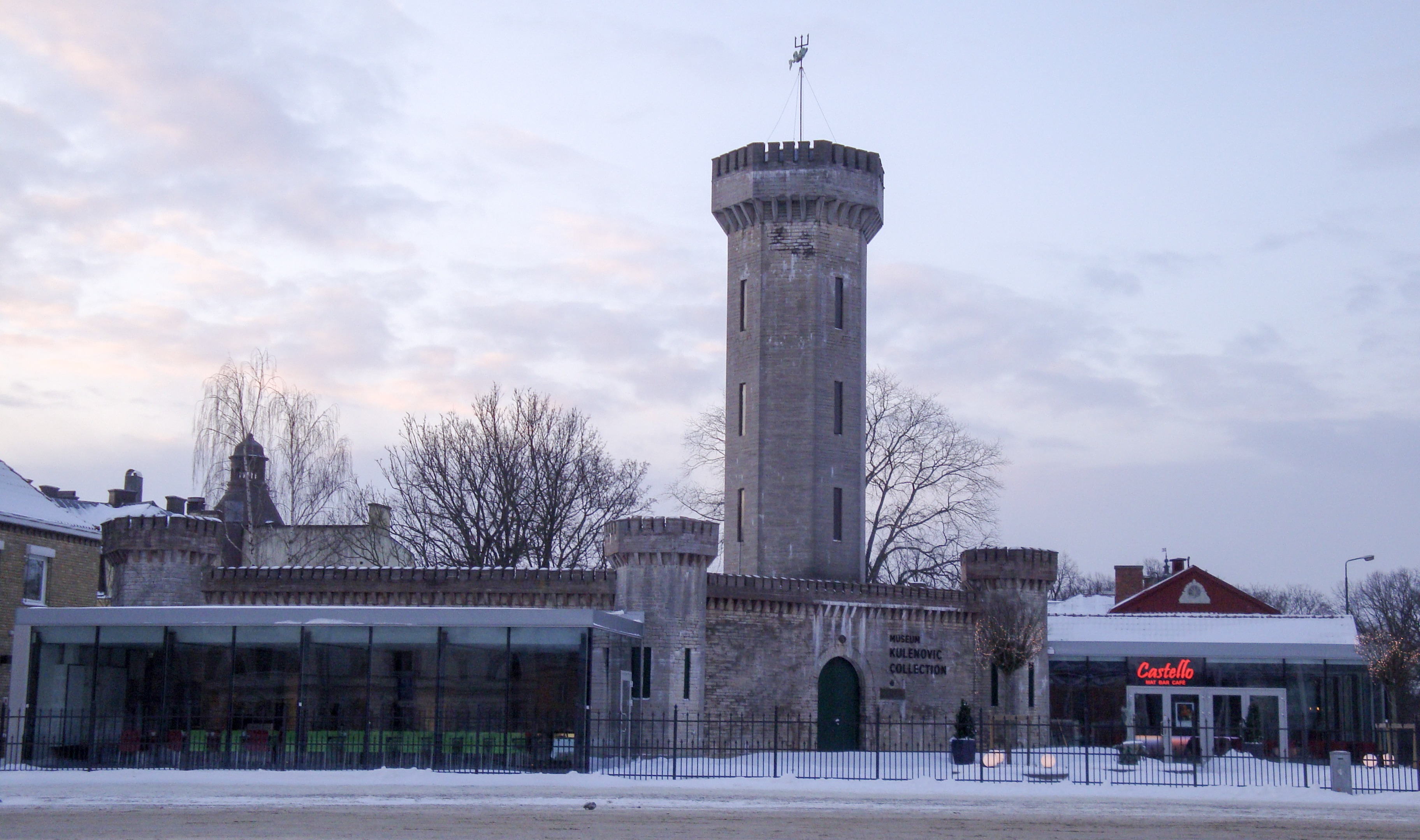 The Water Castle, previously water resorvoir, now museum and coffeshop